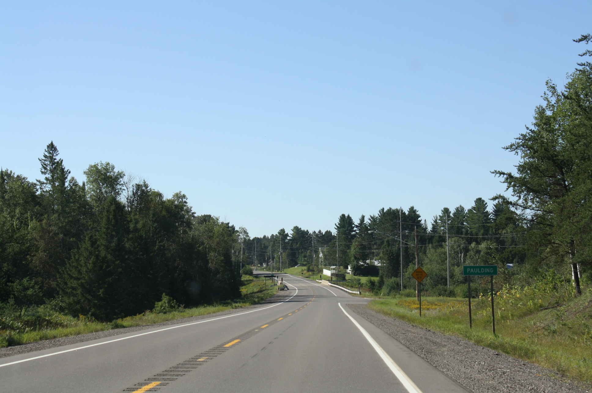 Looking south at the sign for Paulding, Michigan on U.S. Route 45.